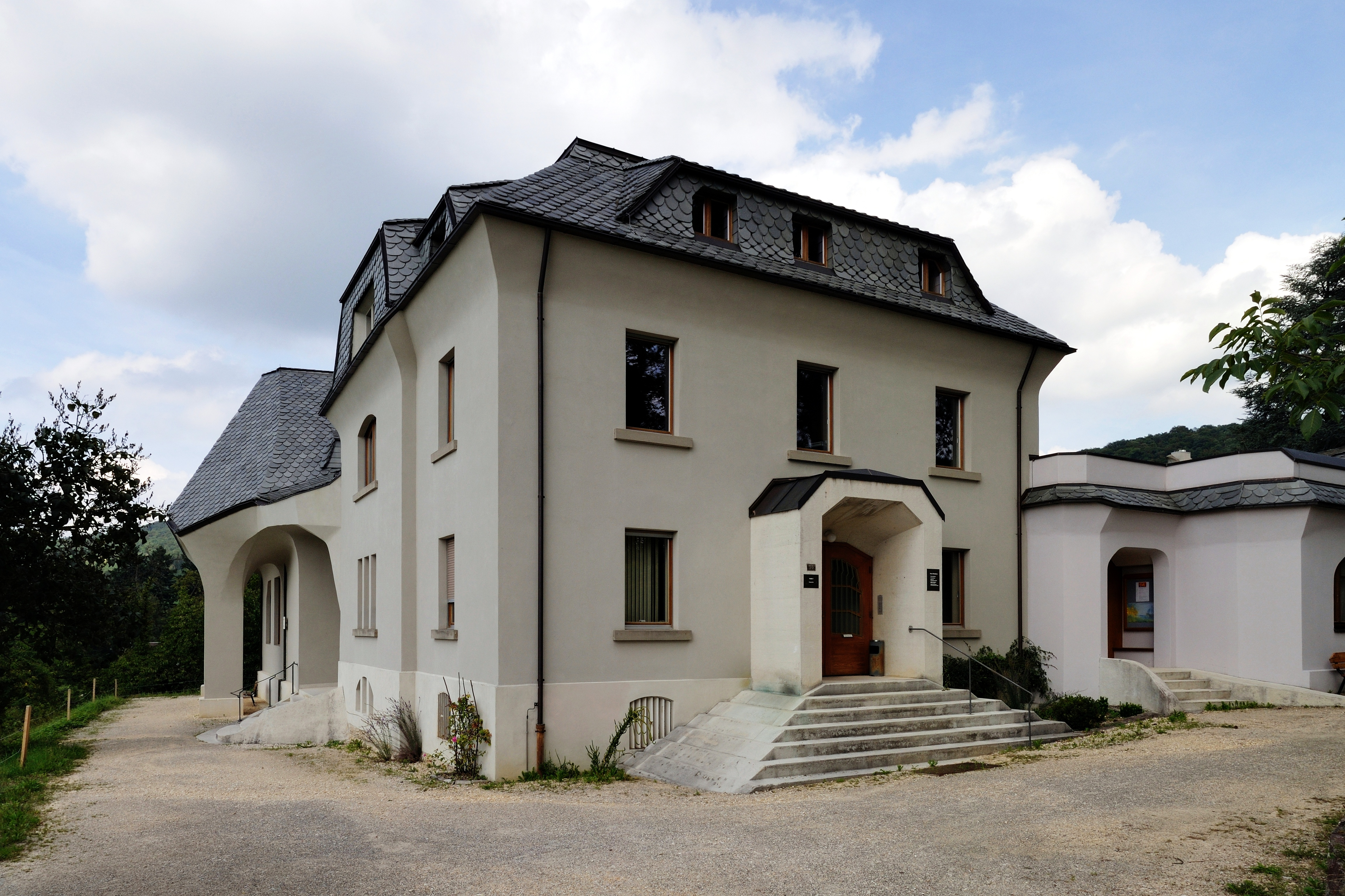 Brodbeck House